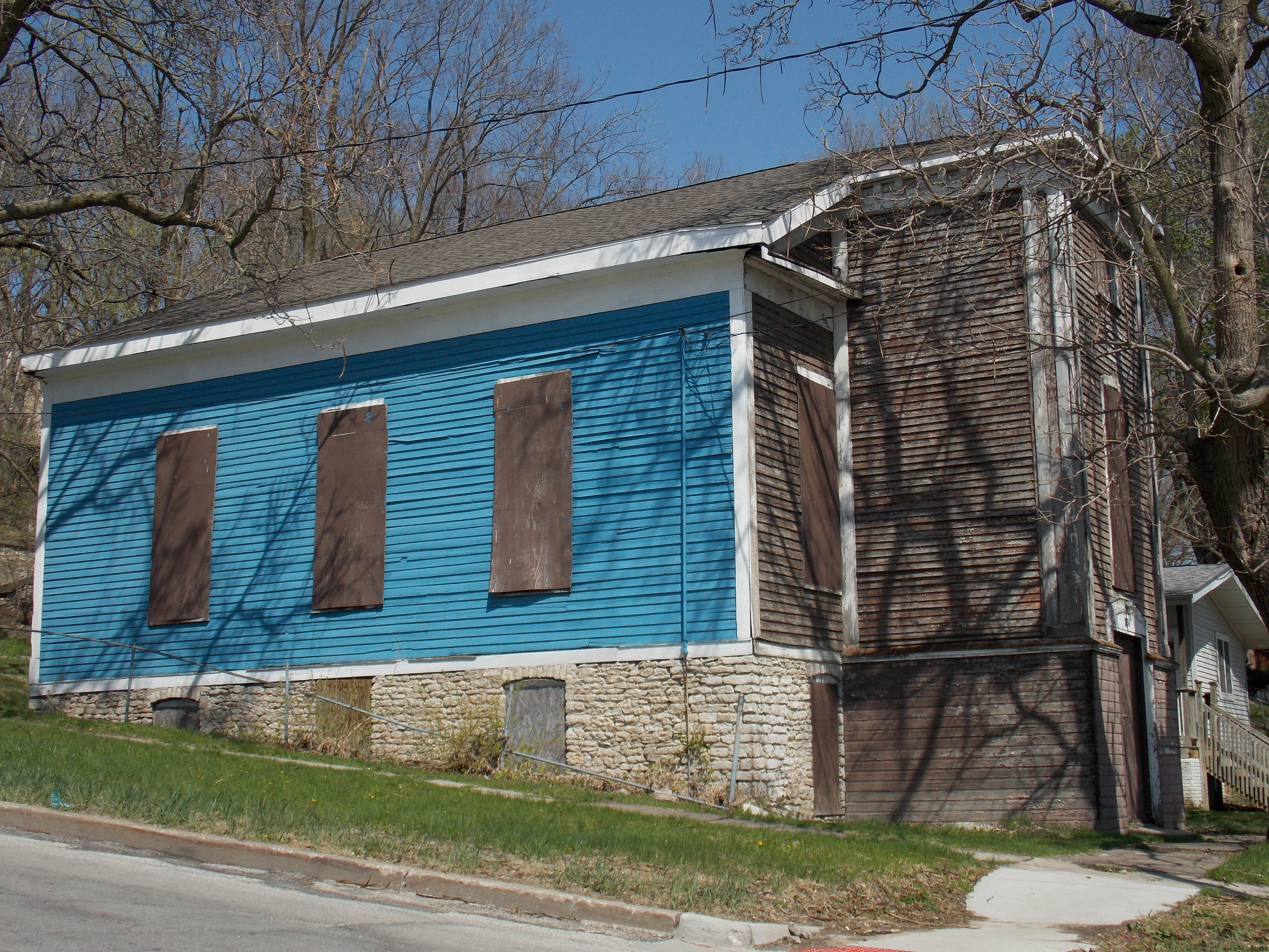 The German Methodist Episcopal Church in Davenport, Iowa is a contributing property in the Hamburg Historic District.